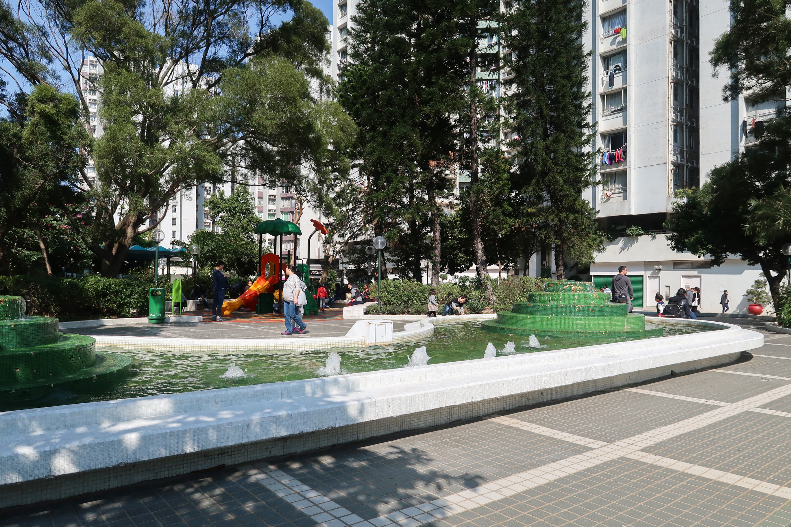 Whampoa Garden Lily Mansion Garden